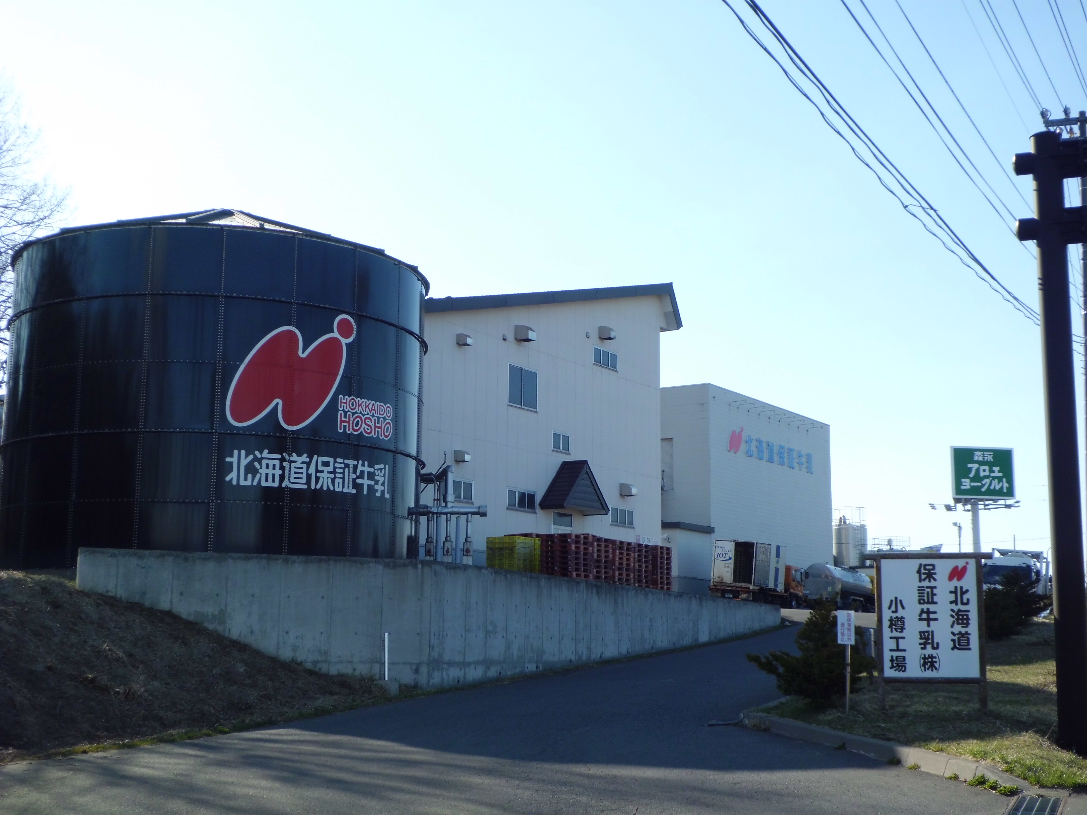 Hokkaido Hosho Milk Otaru Factory